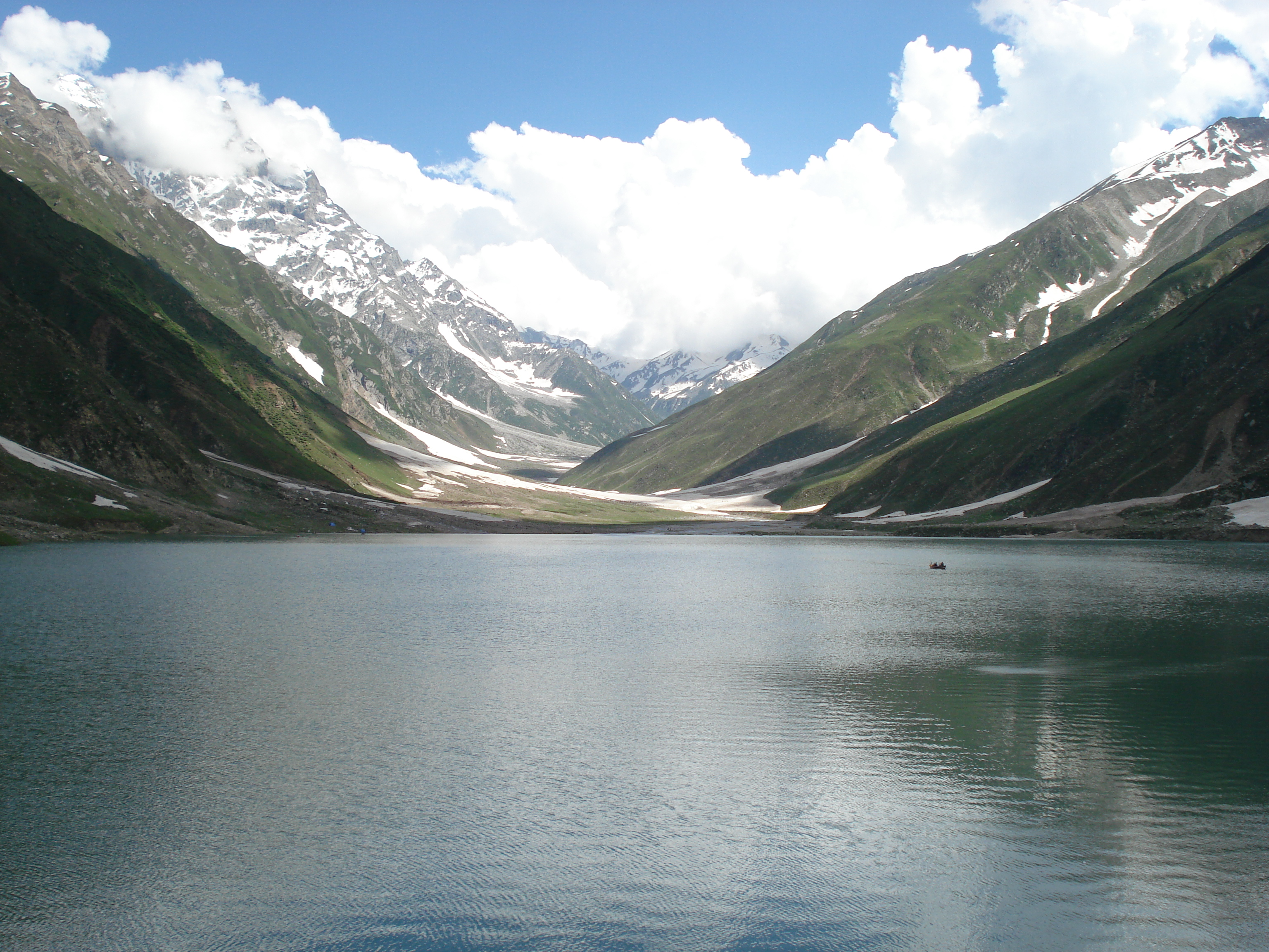 Saif ul Maluk Lake in June, Kaghan Valley. in Saiful Malook National Park, Khyber Pakhtunkhwa, Pakistan.